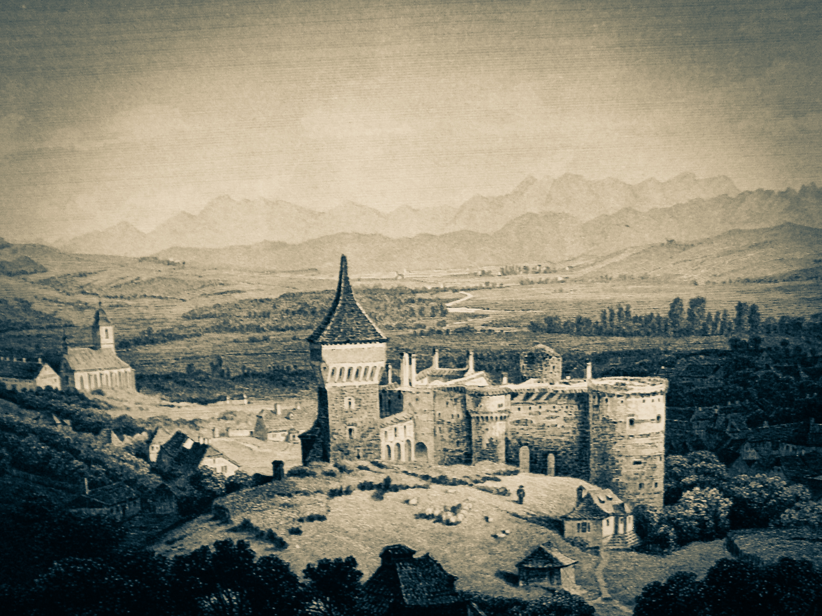 Hunedora by Ludwig Rohbock